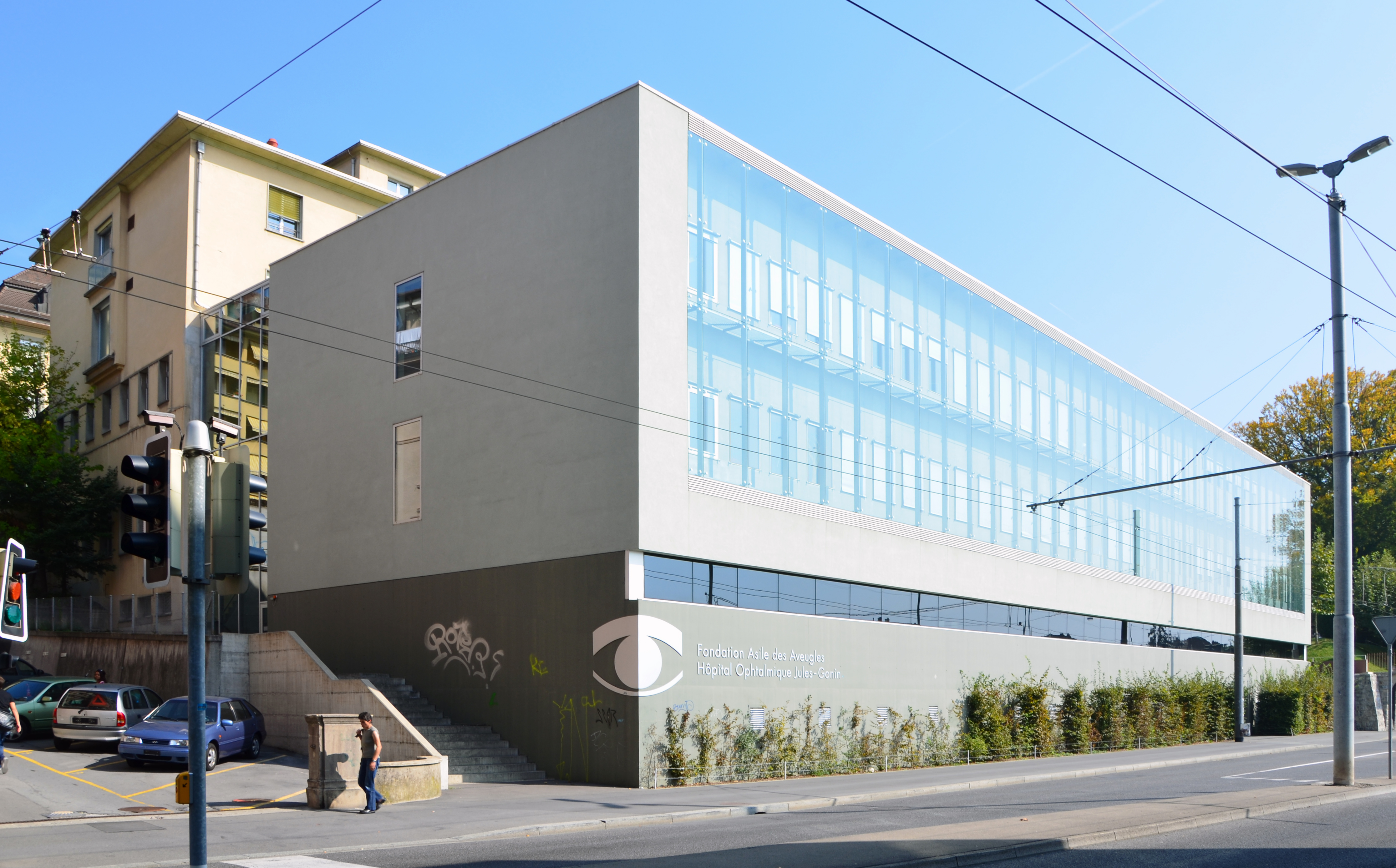 The new Jules-Gonin Ophthalmological Hospital building in Lausanne (Switzerland), dating from 2006; date of this image: September 29, 2011.